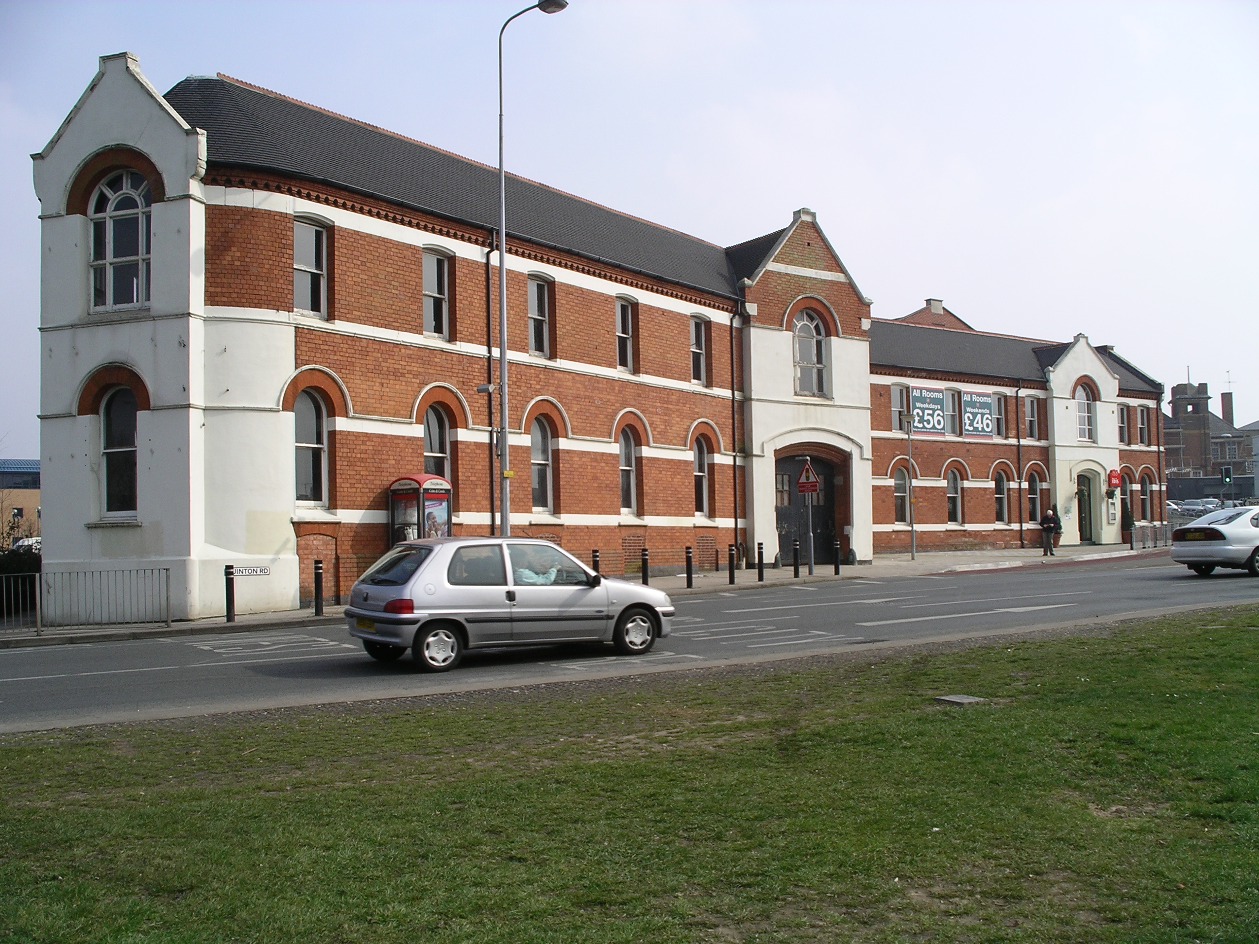 Photo taken by me of the former cycle works in Cheylesmore, Coventry, England. It is now a hotel.